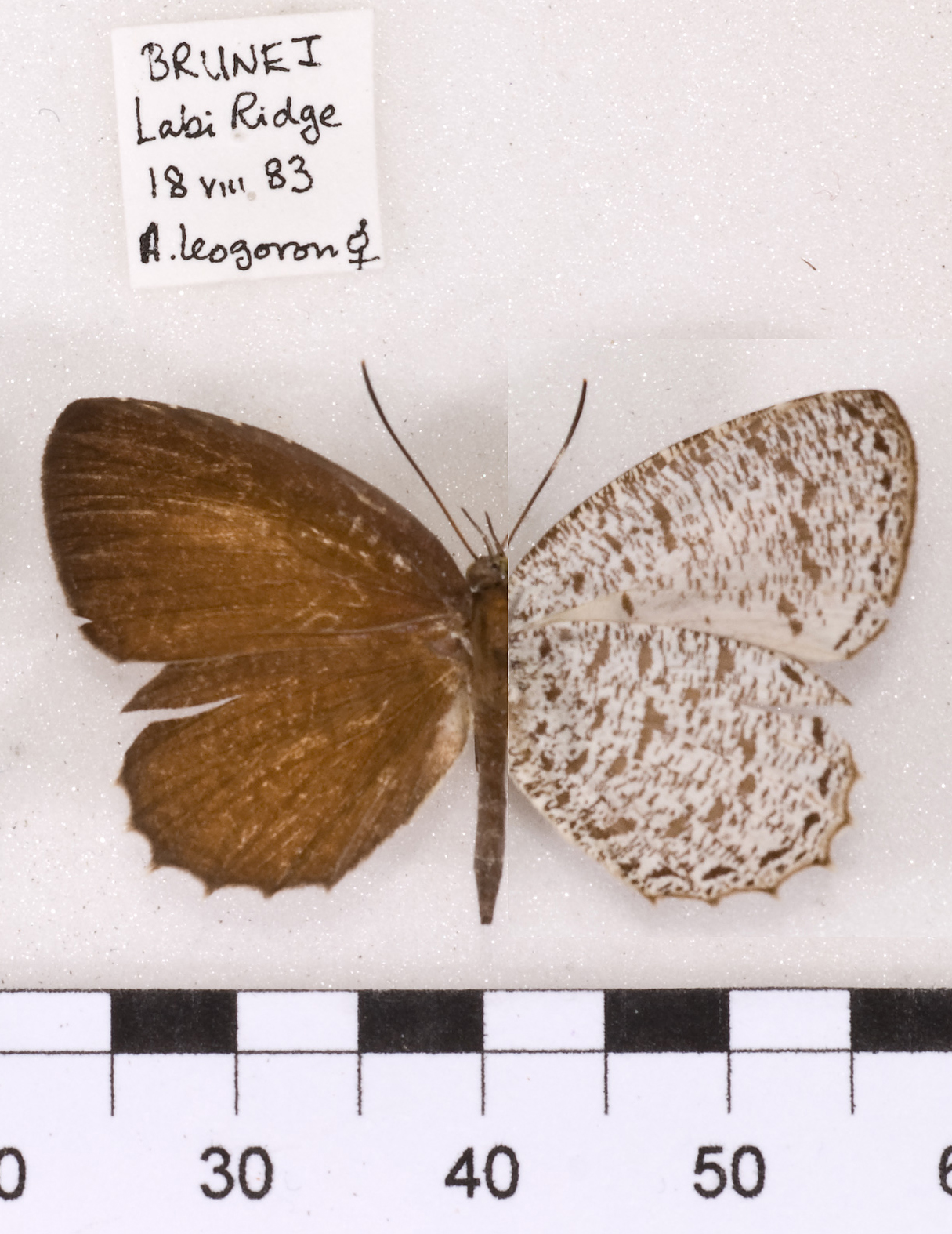 Allotinus leogoron normani, female, set specimen, Brunei, Alan Cassidy photo.